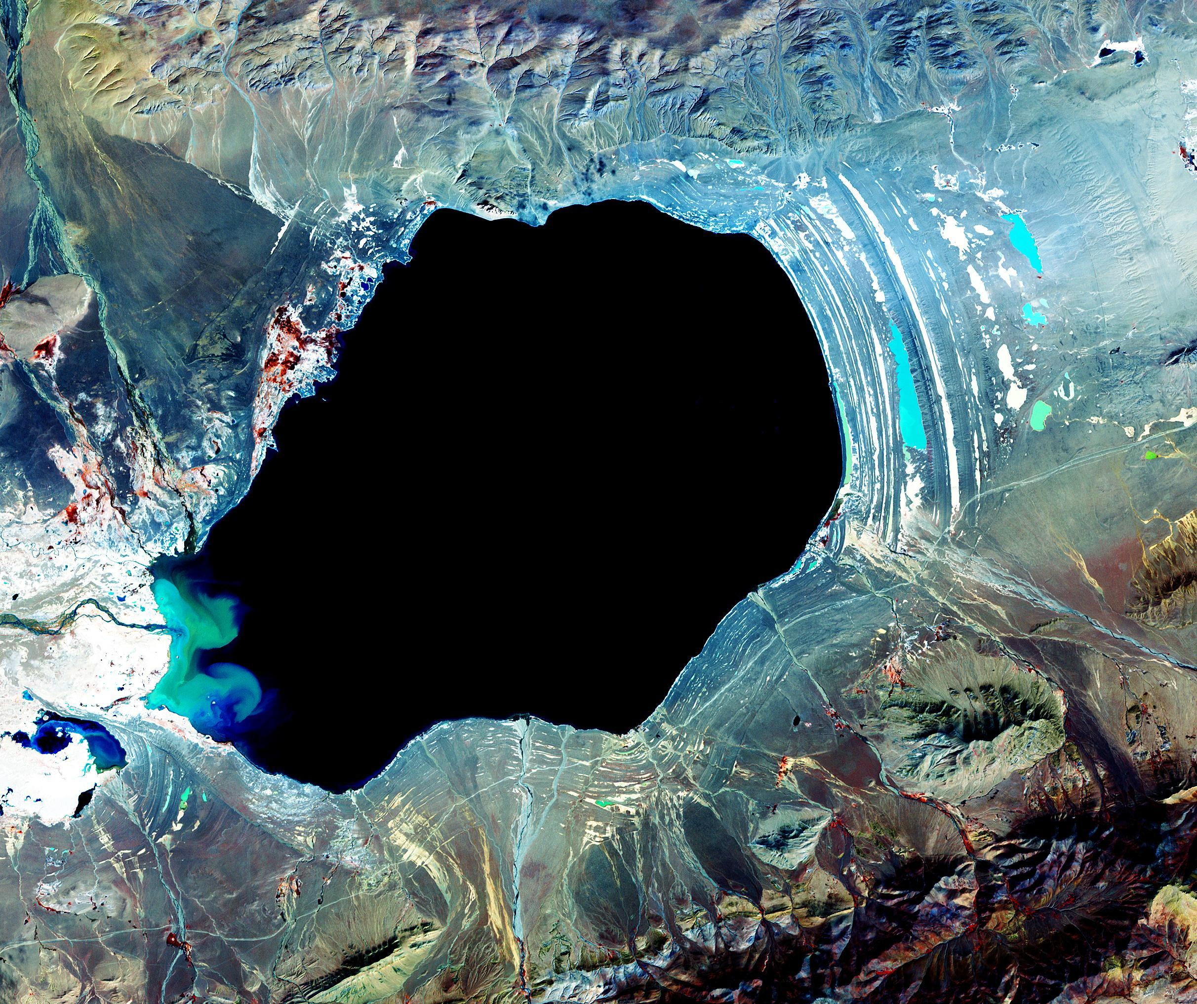 Dagze lake, Tibet.